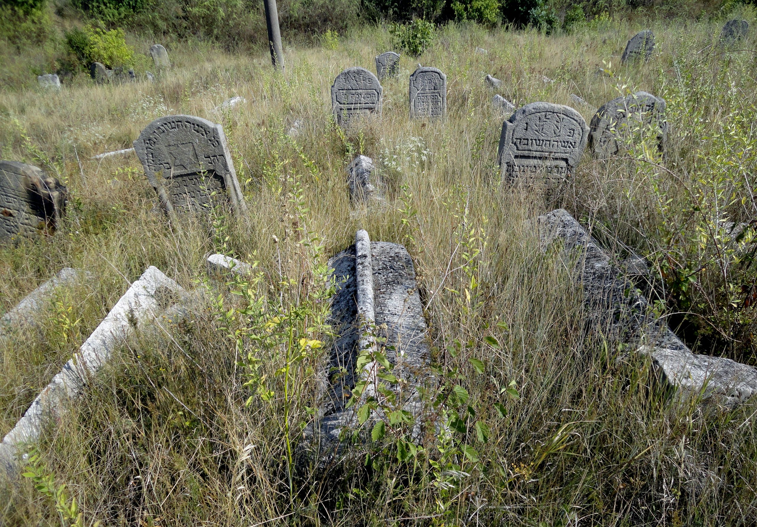 Bălți, Jewish cemetery